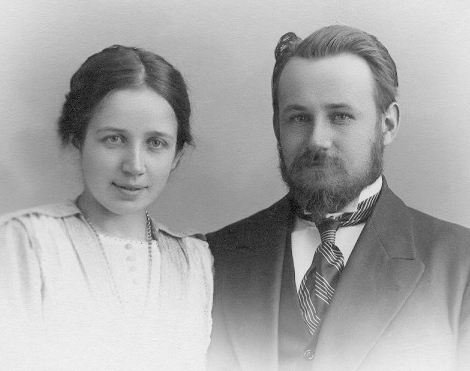 George Vernadsky with wife Nina in Russia